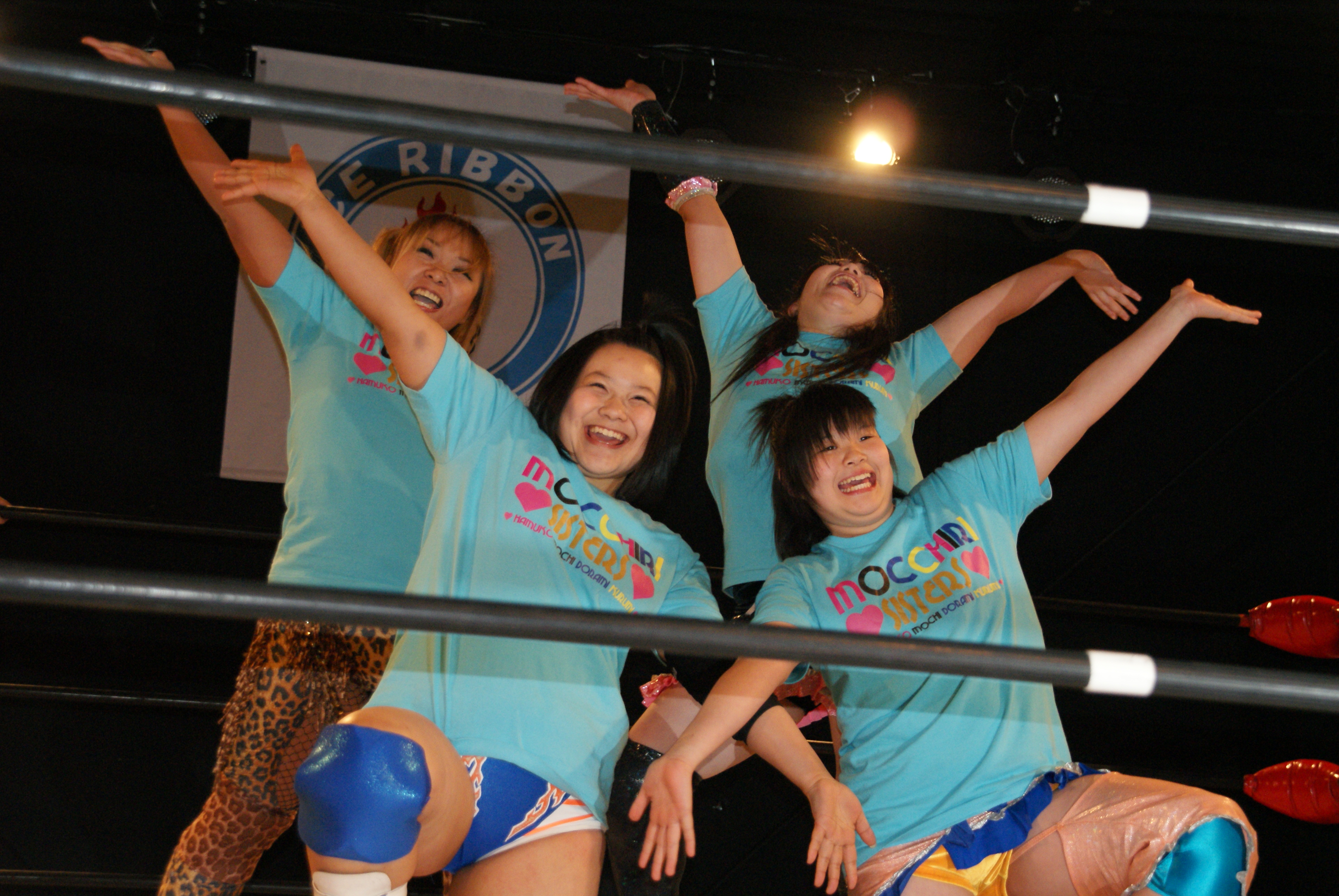 Professional wrestlers Dorami Nagano, Hamuko Hoshi, Kurumi, Mochi Miyagi at an Ice Ribbon event.